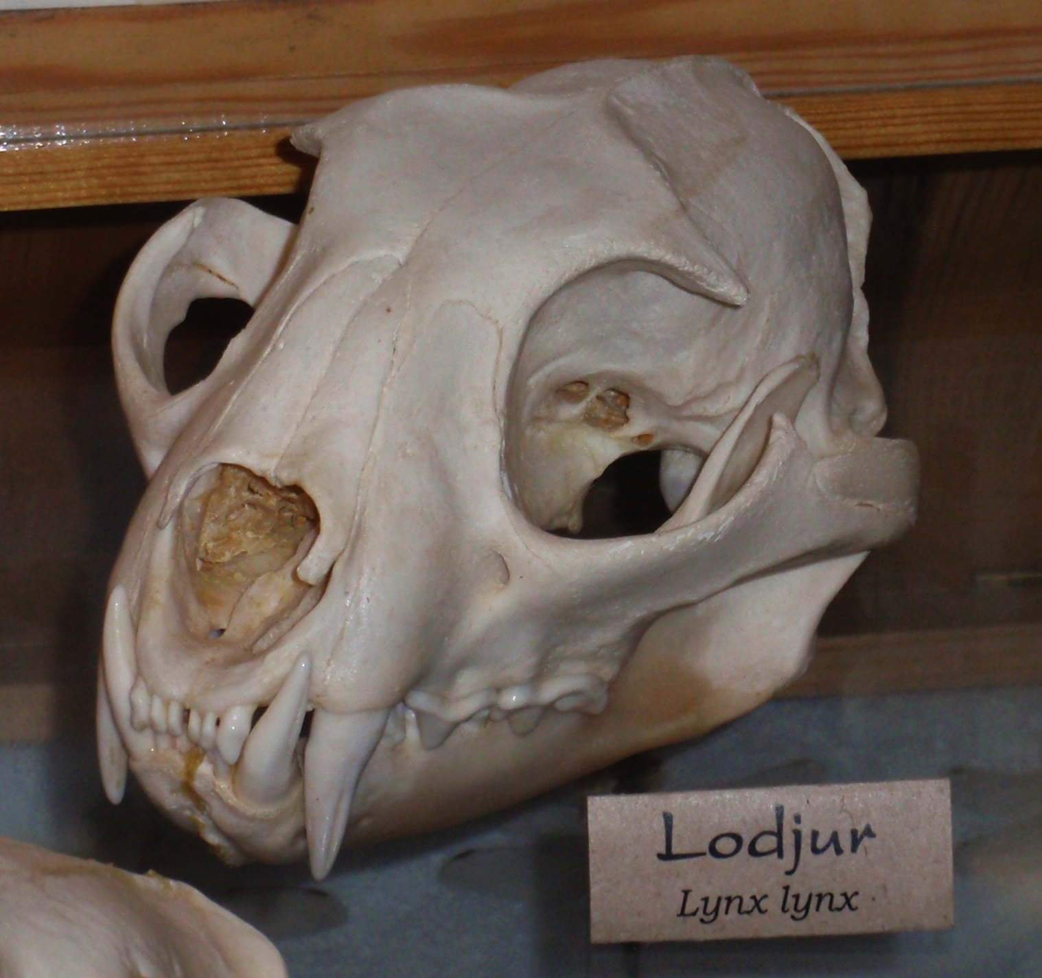 Skull of a european Lynx (Lynx lynx) at Vildmarksgalleriet in Ockelbo (Gästrikland, Sweden), 3-11-2012.